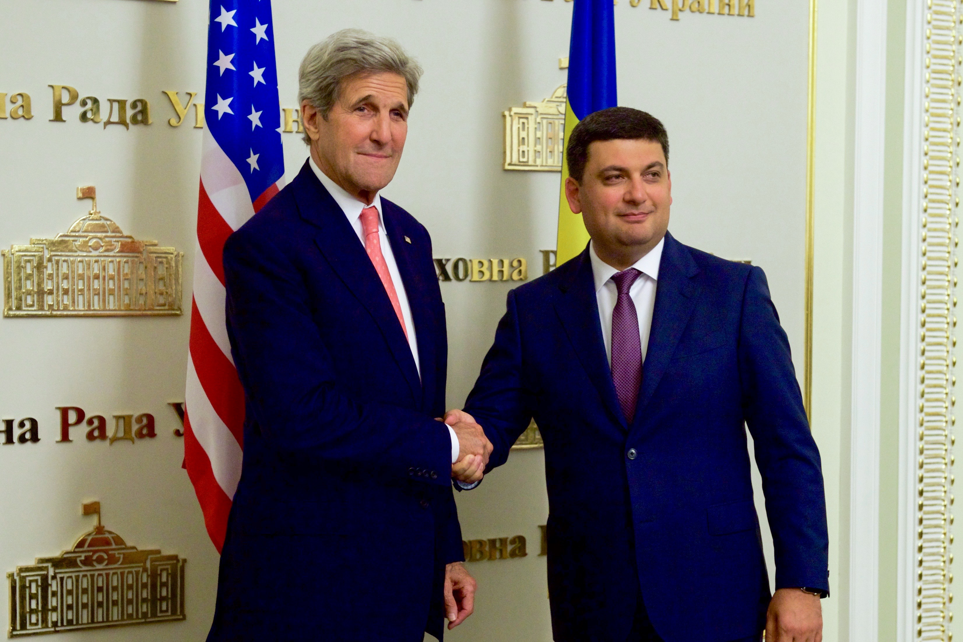 U.S. Secretary of State John Kerry shakes hands with Ukrainian Prime Minister Volodymyr Groysman at the Rada in Kyiv, Ukraine, before a meeting on July 7, 2016.[State Department Photo/ Public Domain]